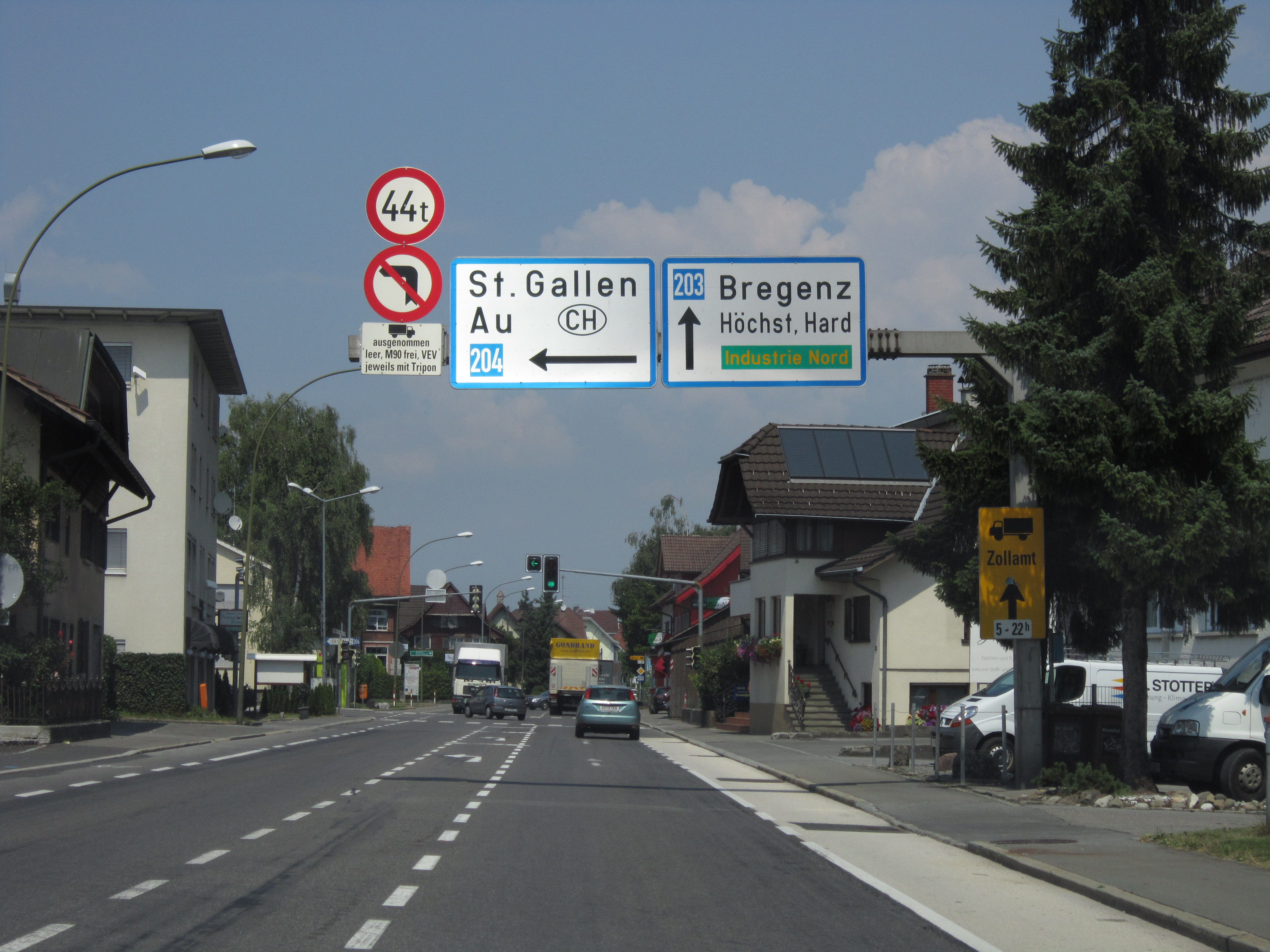 Austrian road number 203 in Lustenau.